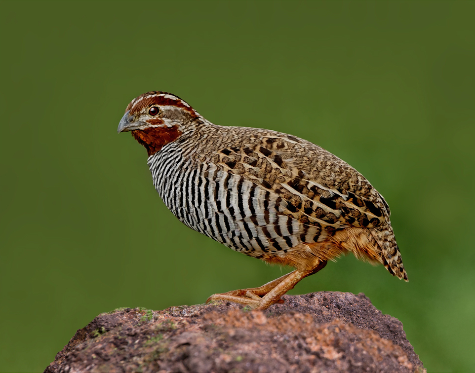 The Jungle Bush Quail by Antony Grossy